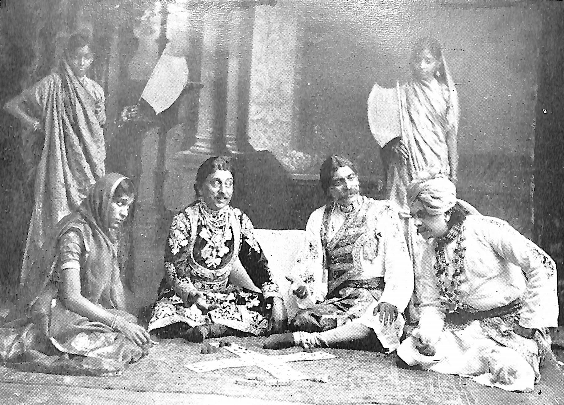 Mohan Marwadi, Dayashankar Oza, Bapulal Nayak and other artists in a play 'Nandabatrisi'